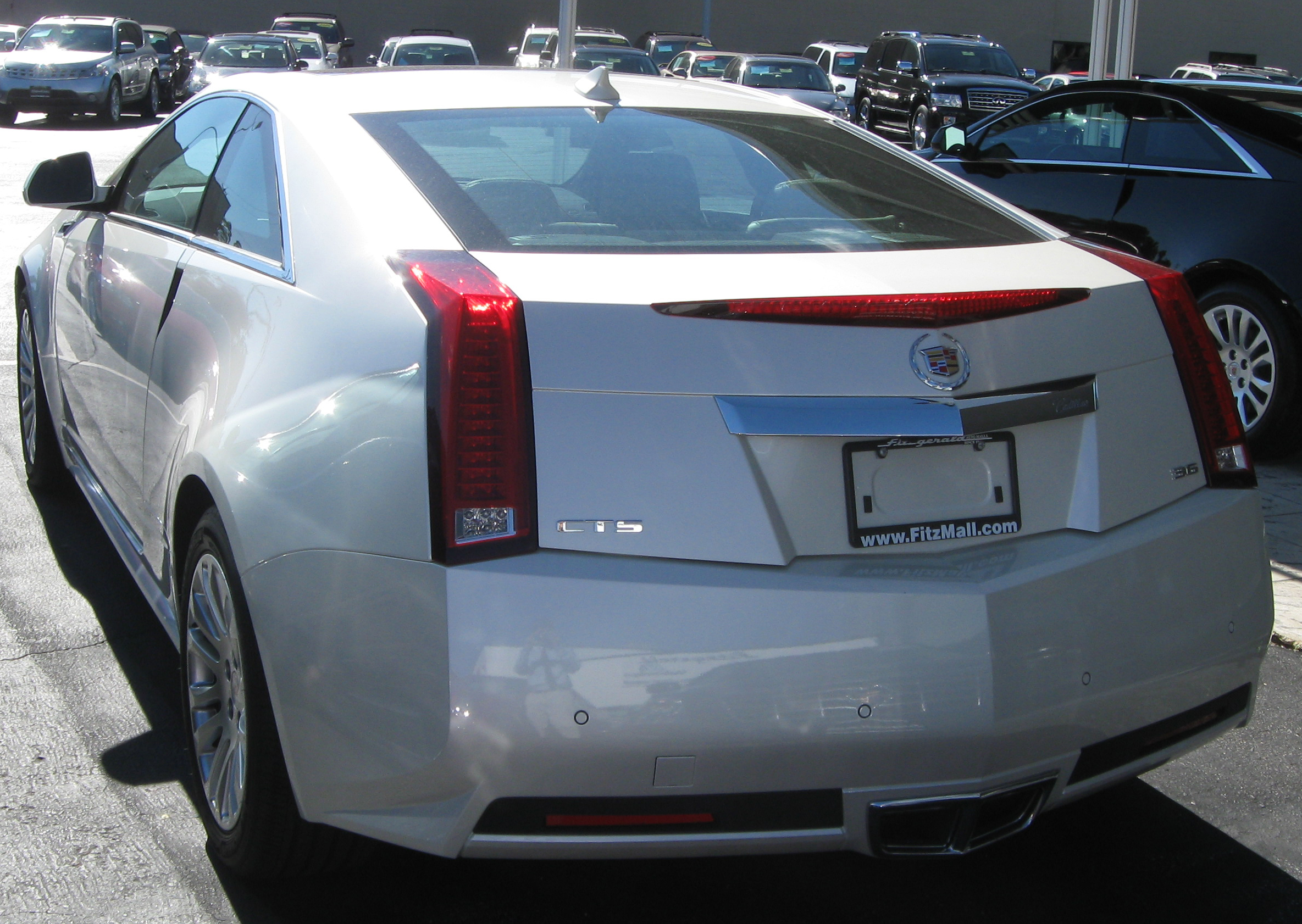 2011 Cadillac CTS photographed in Annapolis, Maryland, USA.